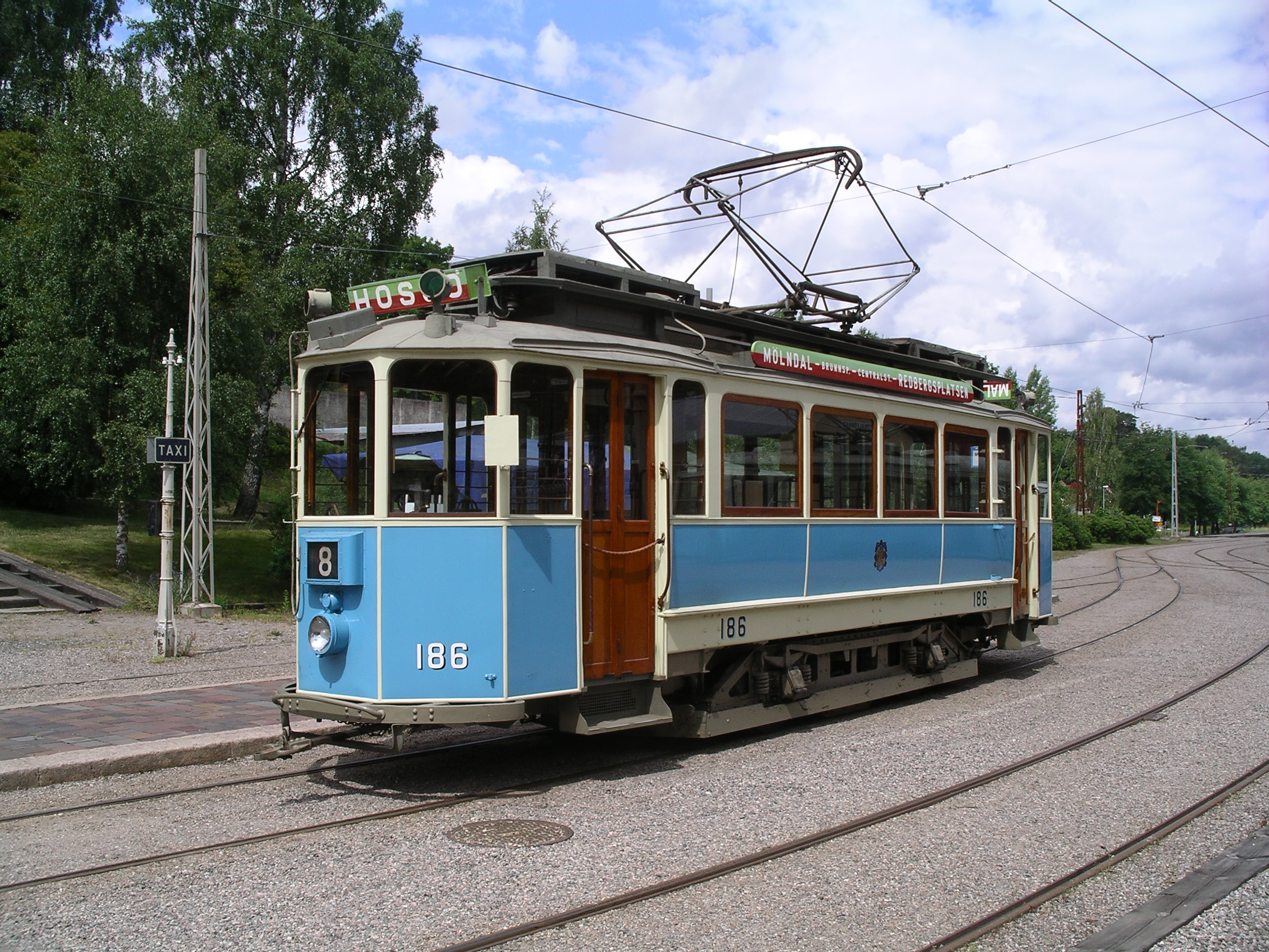 Gothenburg Tramways No 186 in Malmköping, Sweden